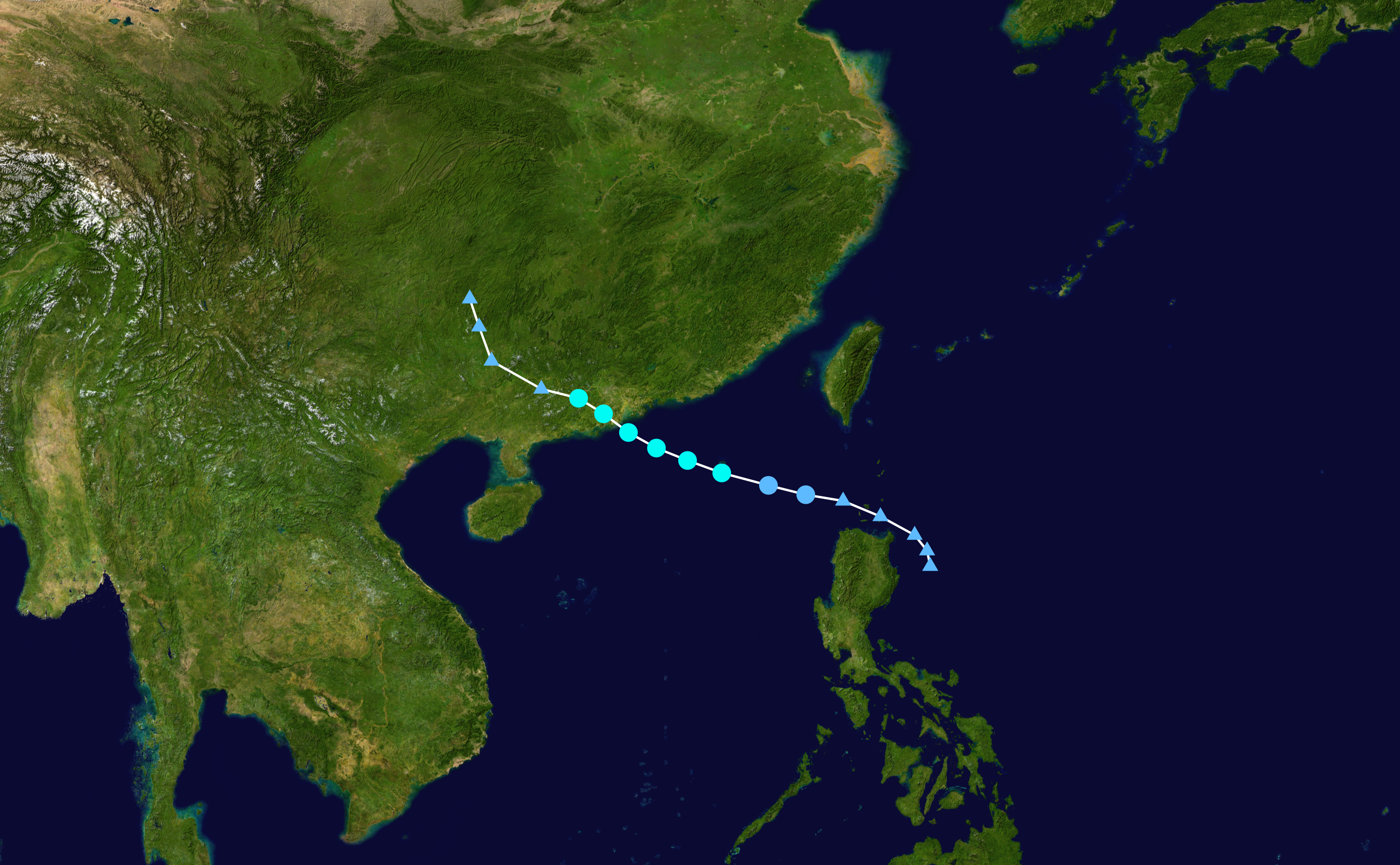 Track map of Severe Tropical Storm Higos of the 2020 Pacific typhoon season. The points show the location of the storm at 6-hour intervals. The colour represents the storm's maximum sustained wind speeds as classified in the Saffir–Simpson scale (see below), and the shape of the data points represent the nature of the storm, according to the legend below. Saffir–Simpson scale Tropical depression≤38 mph≤62 km/h Category 3111–129 mph178–208 km/h Tropical storm39–73 mph63–118 km/h Category 4130–156 mph209–251 km/h Category 174–95 mph119–153 km/h Category 5≥157 mph≥252 km/h Category 296–110 mph154–177 km/h Unknown Storm type Tropical cyclone Subtropical cyclone Extratropical cyclone / Remnant low / Tropical disturbance / Monsoon depression